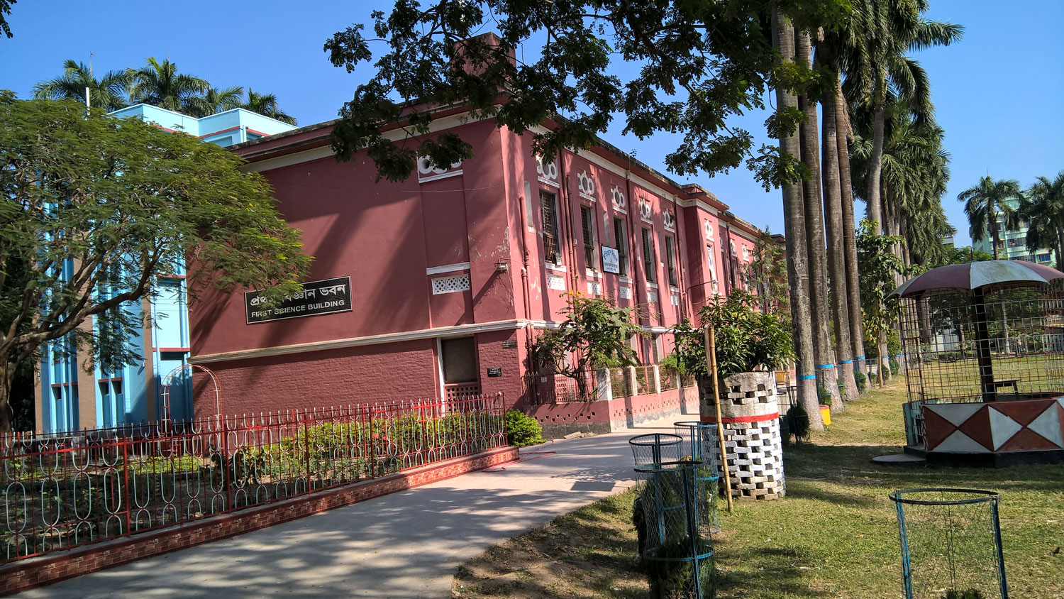 First science building, Rajshahi College